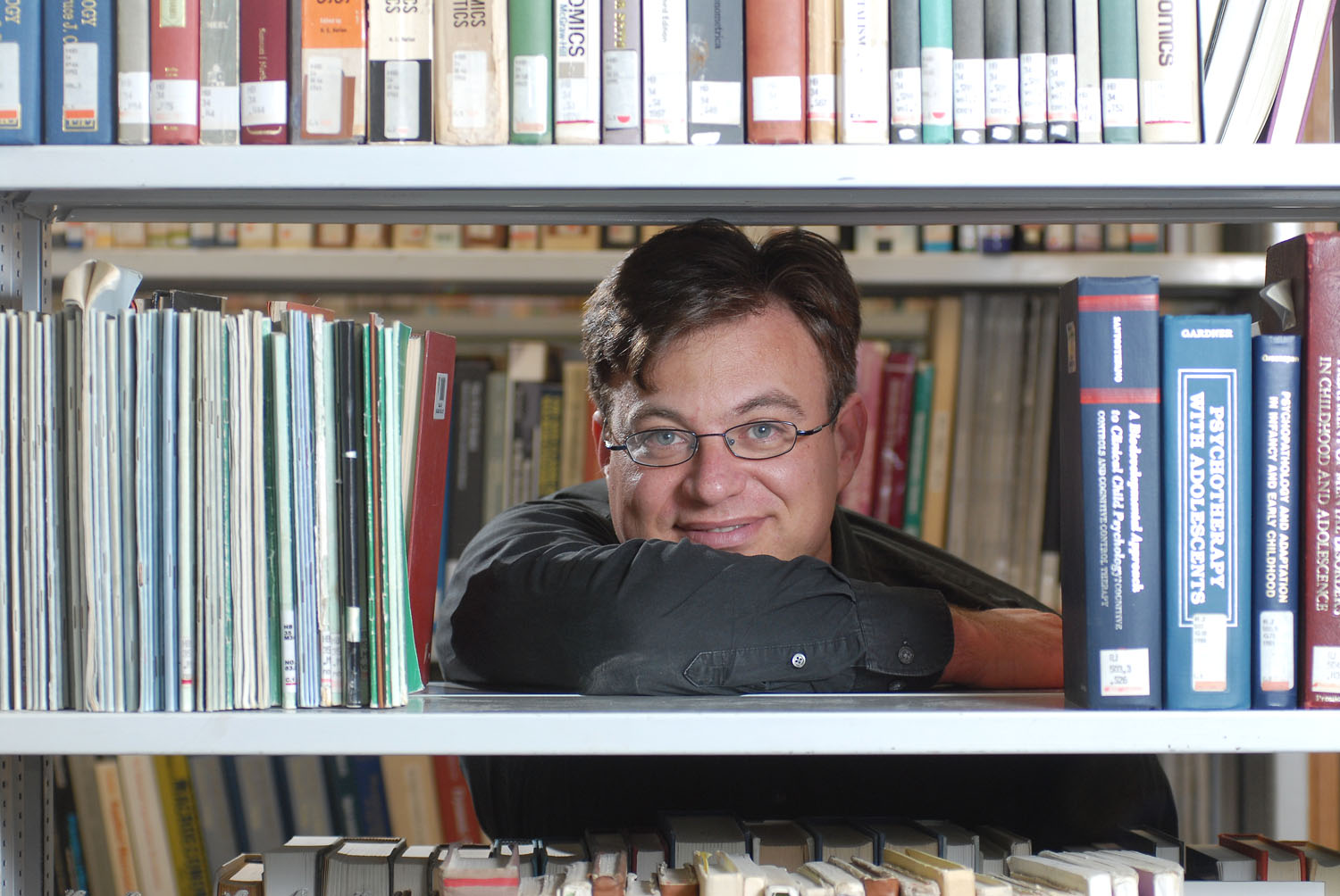 Prof. Golan Shahar